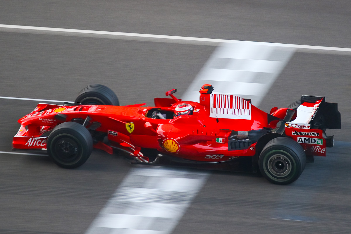 Kimi Räikkönen driving for Scuderia Ferrari at the 2008 Chinese Grand Prix.